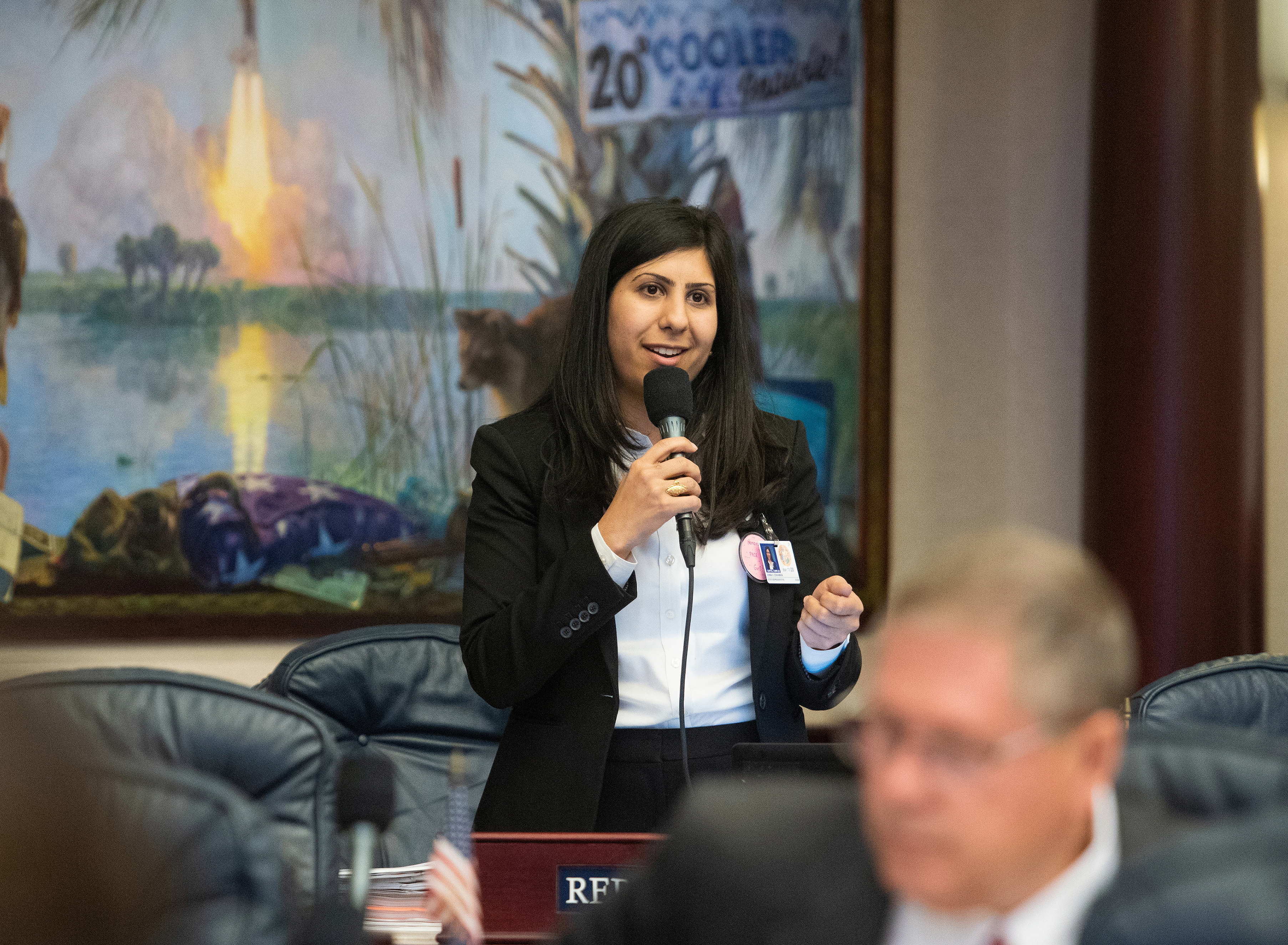 Rep. Anna Eskamani, D-Orlando, debates a measure on the House floor April 3rd, 2019.